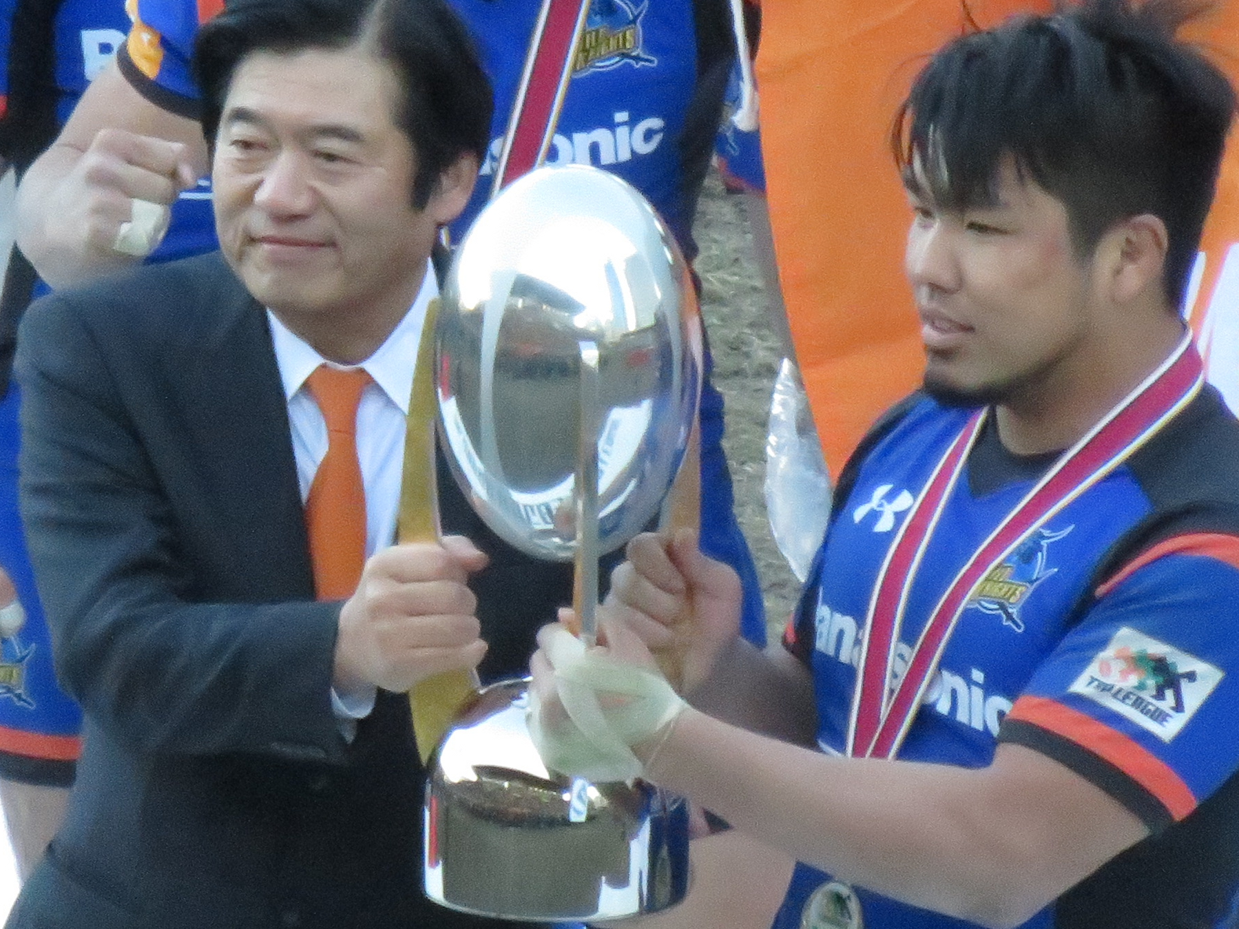 Lixil President and CEO, Yoshiaki Fujimori, presents the trophy for the 2016 Lixil Cup knockout competition to Panasonic Wild Knights captain Shota Horie.